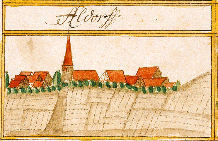 View of Altdorf from the forest register books created by Andreas Kieser